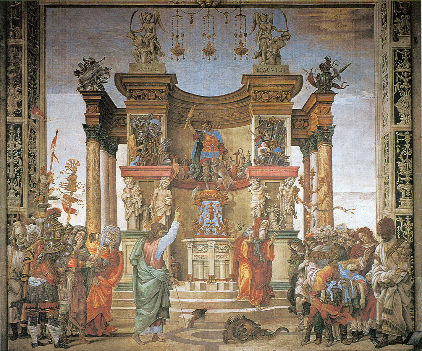 LIPPI, Filippino St Philip Driving the Dragon from the Temple of Hieropolis Fresco Strozzi Chapel, Santa Maria Novella, Florence